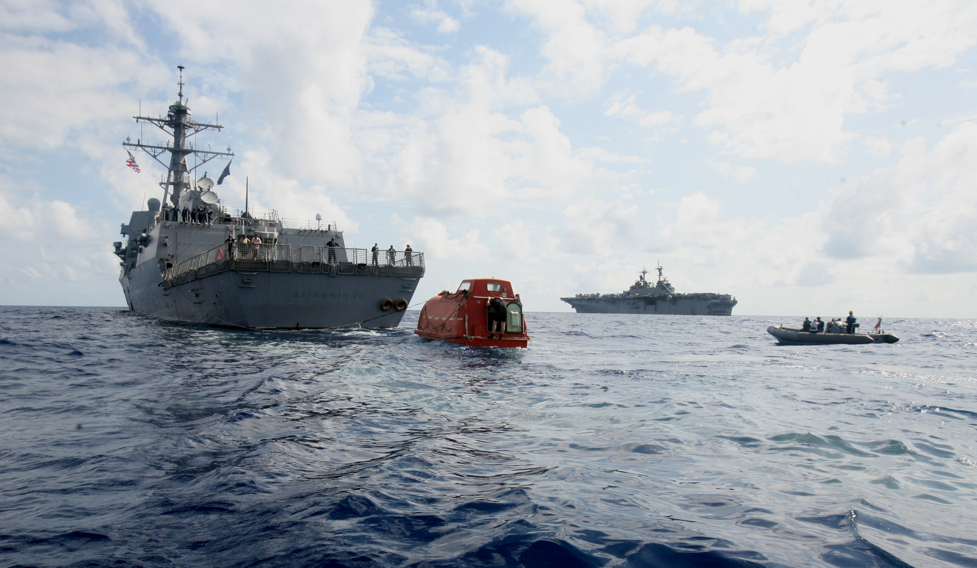 090413-M-3079S-081 INDIAN OCEAN (April 13, 2009) The guided-missile destroyer USS Bainbridge (DDG 96) tows the lifeboat from the Maersk Alabama to the amphibious assault ship USS Boxer (LHD 4), in background, to be processed for evidence after the successful rescue of Capt. Richard Phillips. Phillips was held captive by suspected Somali pirates in the lifeboat in the Indian Ocean for five days after a failed hijacking attempt off the Somali coast. Boxer is deployed as part of Boxer Amphibious Readiness Group/13th MEU supporting maritime security operations in the U.S. 5th fleet area of responsibility. Maritime security operations help develop security in the maritime environment and compliment the counterterrorism and security efforts of regional nations. From security arises stability that results in global economic prosperity. These operations seek to disrupt violent extremists' use of the maritime environment to transport personnel and weapons or serve as a venue for attack. (U.S. Marine Corps photo by Lance Cpl. Megan E. Sindelar/Released)